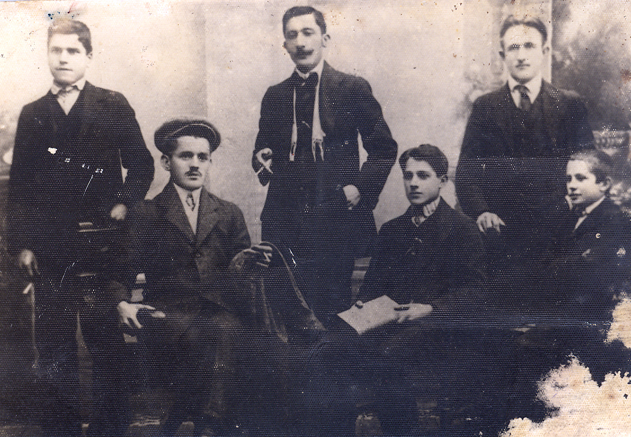 Young Bosnia members. Standing: 1. ?, 2. Bogdan Žerajić, 3. ?; Sitting: 1. Jovo Princip (Gavrilo's older brother), 2. Gavrilo Princip, 3. Nikola Princip (little brother of Gavrilo).